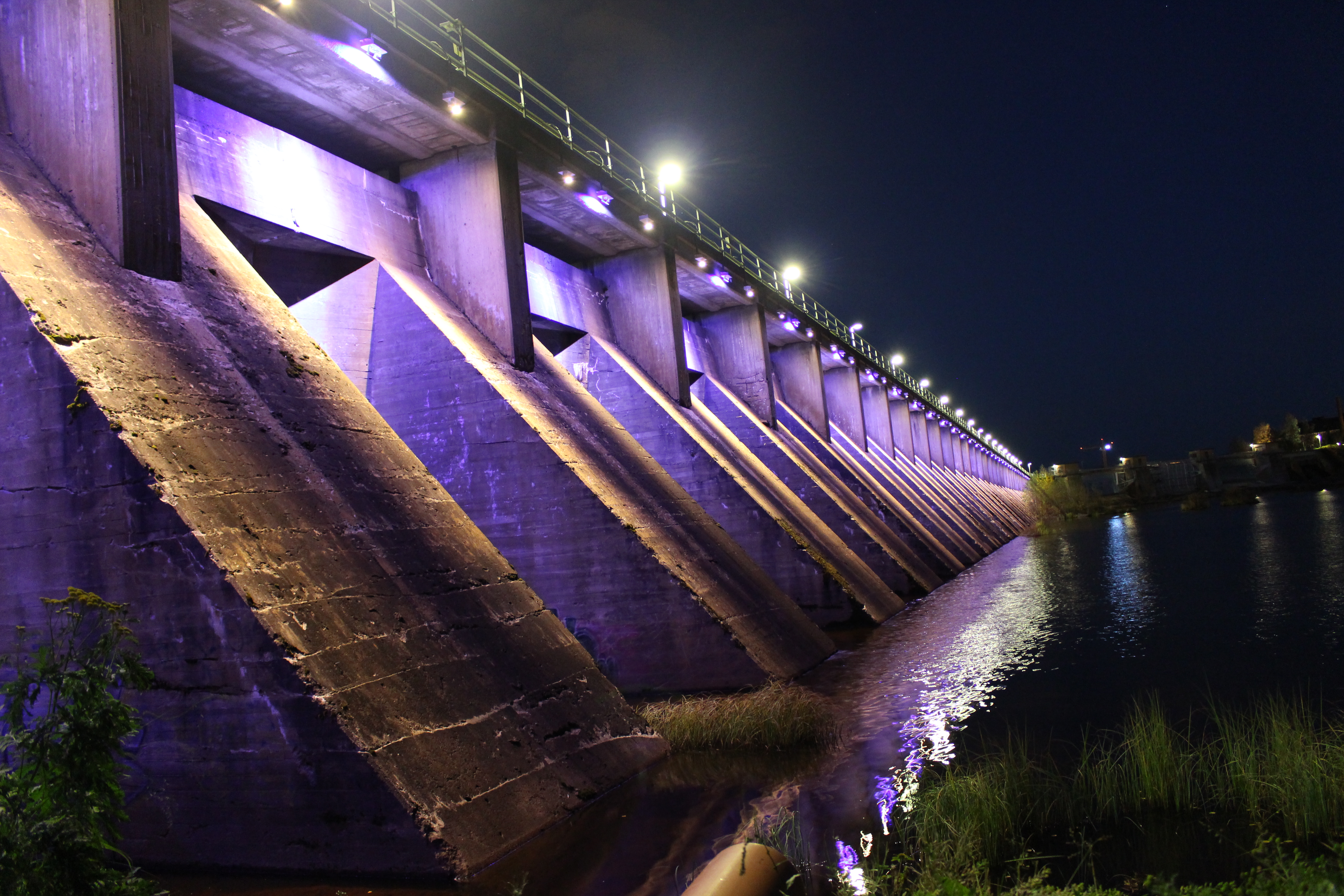 Merikoski power plant at night